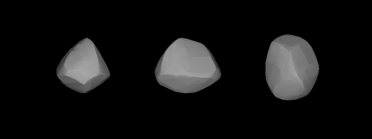 A three-dimensional model of 82 Alkmene that was computed using light curve inversion techniques.